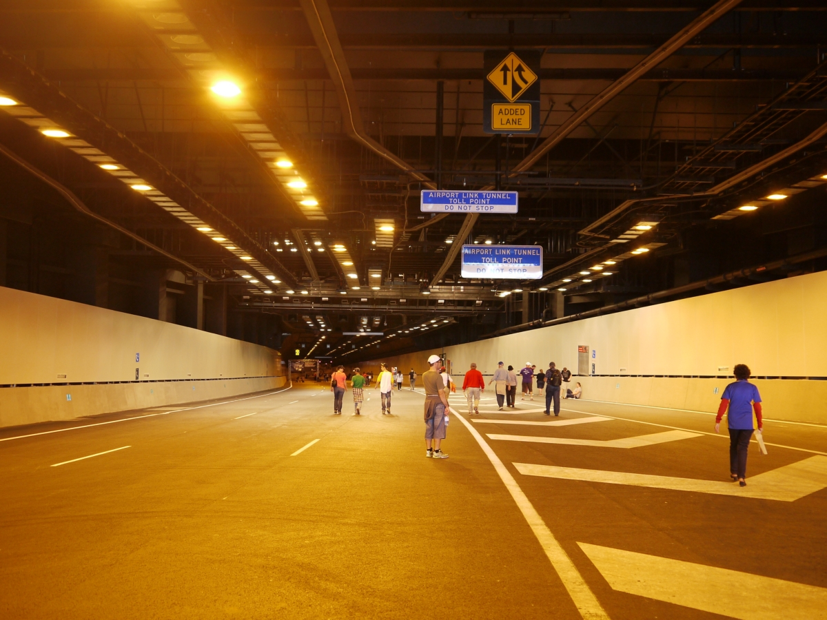 Brisbane Airportlink - Southern Portal toll gantry taken during opening walkthrough ('Bridge and Tunnel Experience')